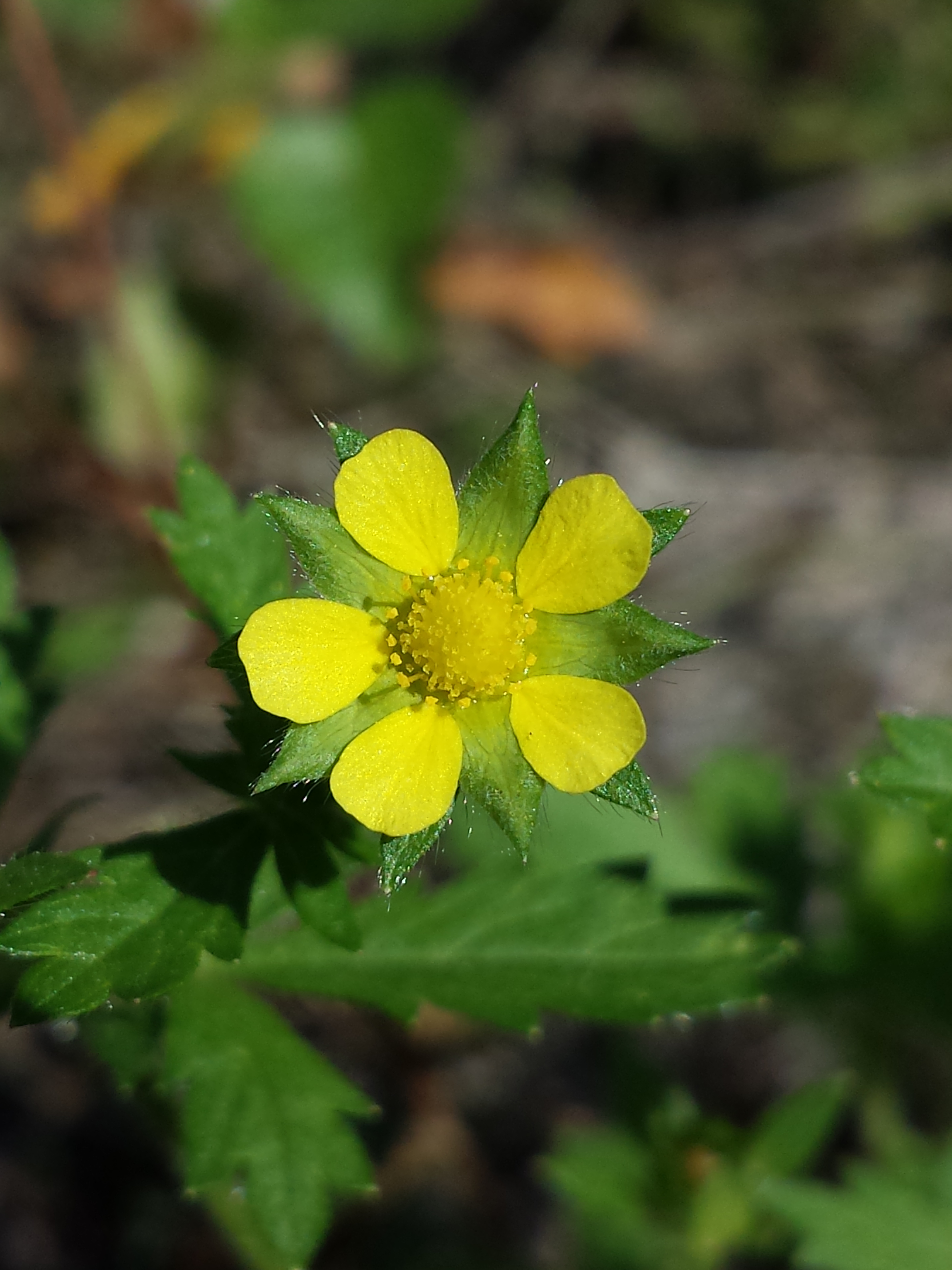 Flower Taxonym: Potentilla norvegica ss Fischer et al. EfÖLS 2008 ISBN 978-3-85474-187-9 Location: Žárský rybník, Jihočeský kraj, Czech Republic - ca. 500 m a.s.l. Habitat: shore of a pond